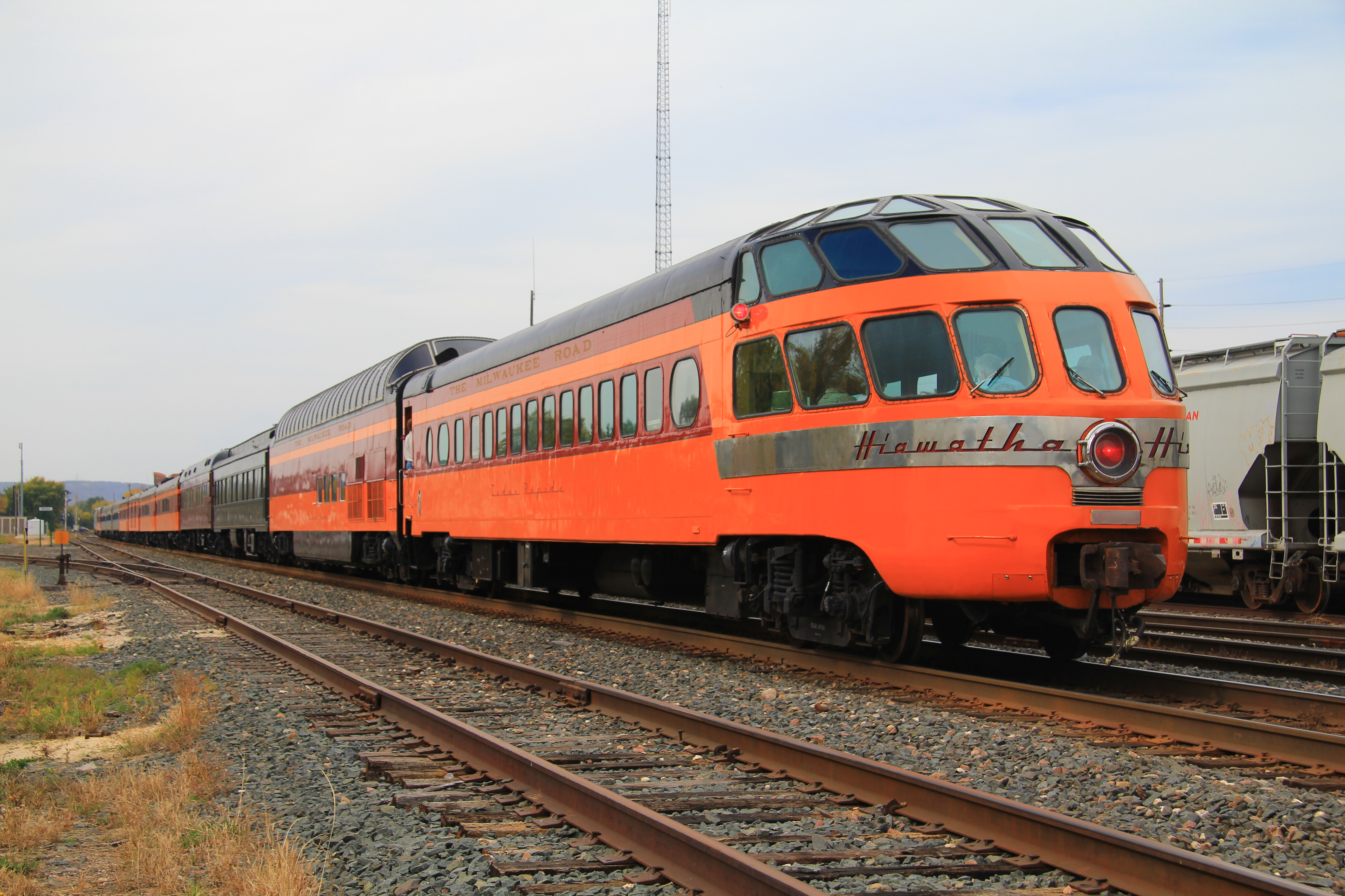 A shot of the train in Winona with the "Cedar Rapids" Skytop Lounge at the tail end.